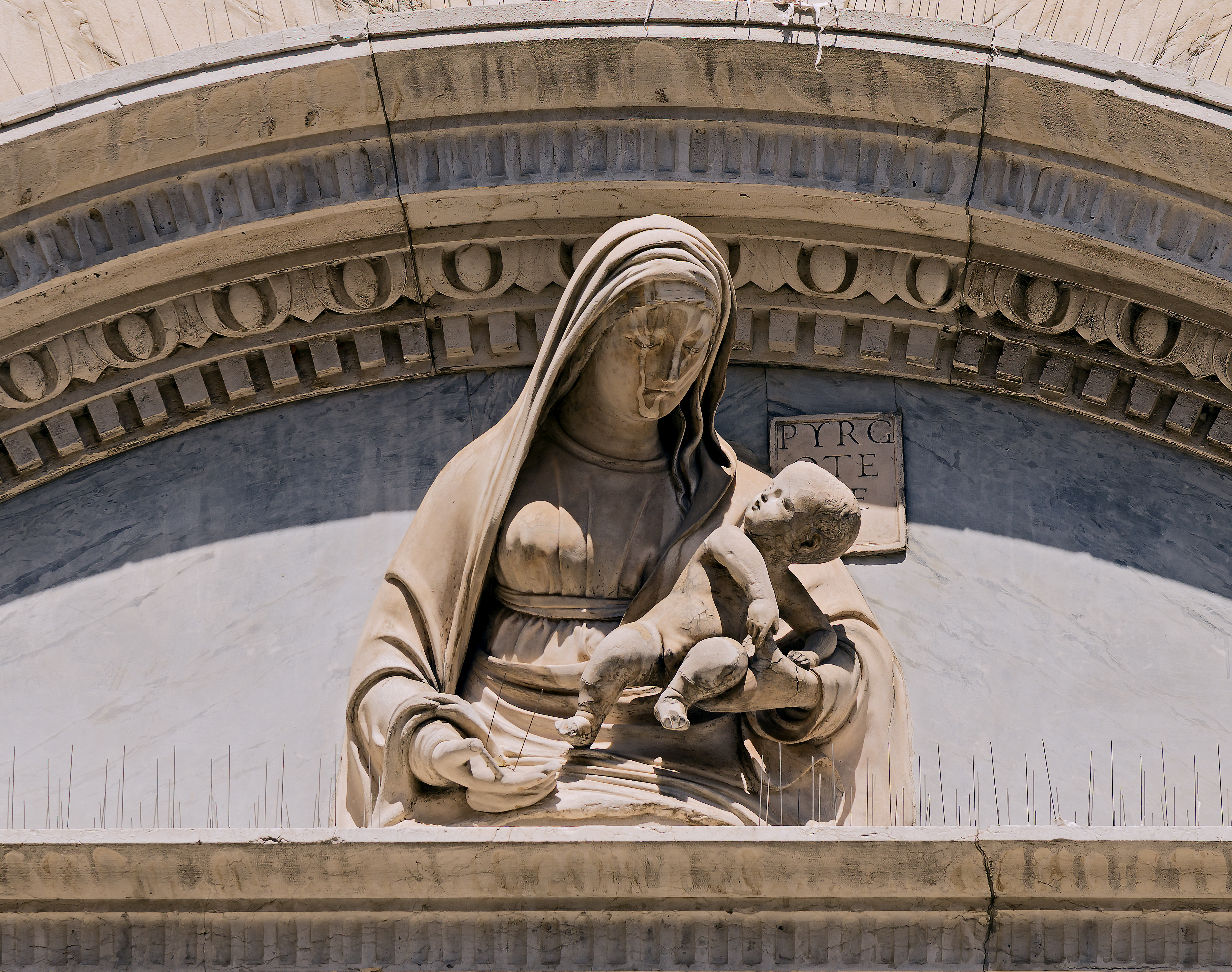 Church of Santa Maria dei Miracoli in Venice; facade. Bust of the Virgin with the Christ child by the sculptor Giorgio Lascaris dated 1480.